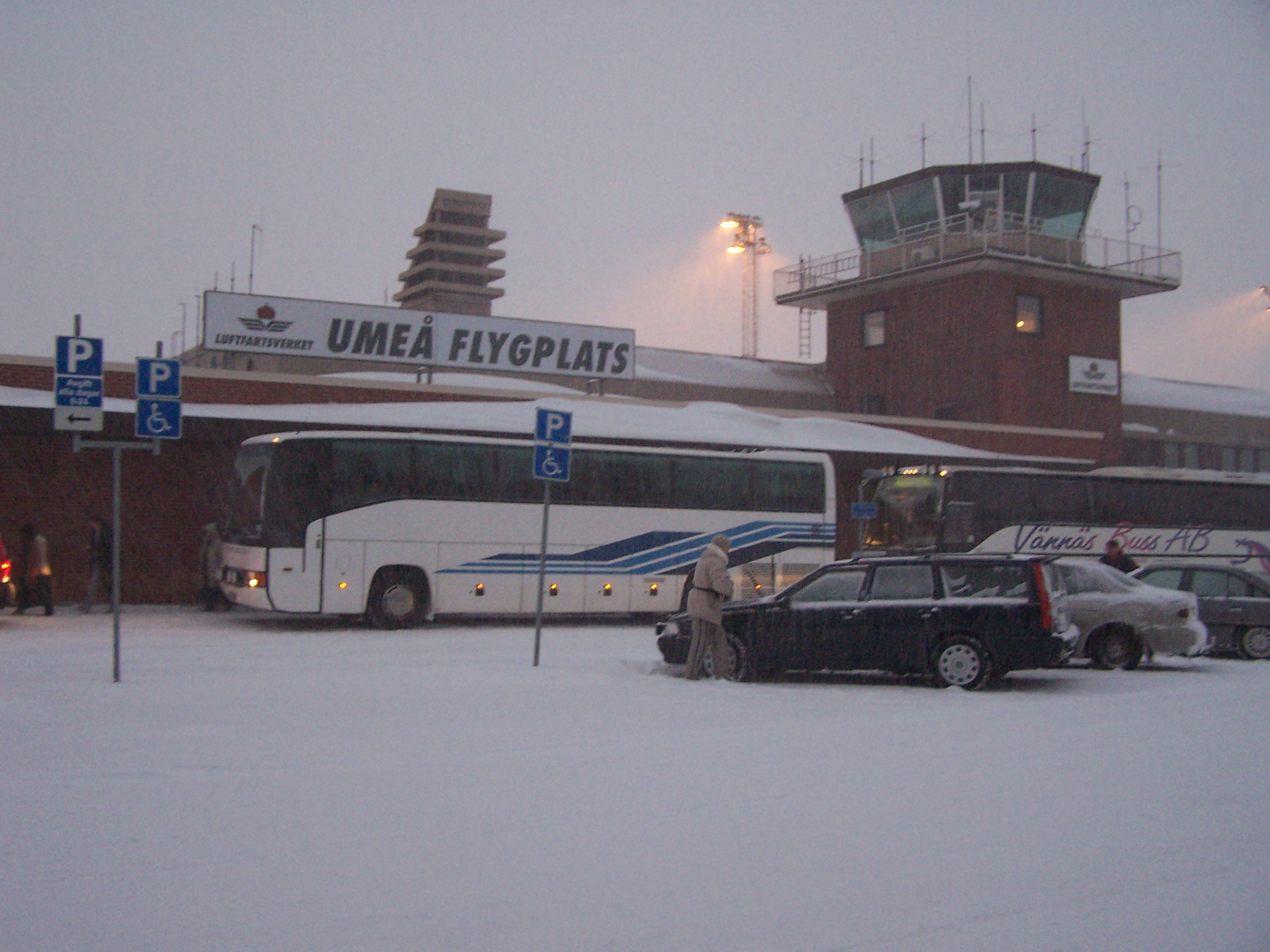 Umeå Airport, winter 2004, Sweden